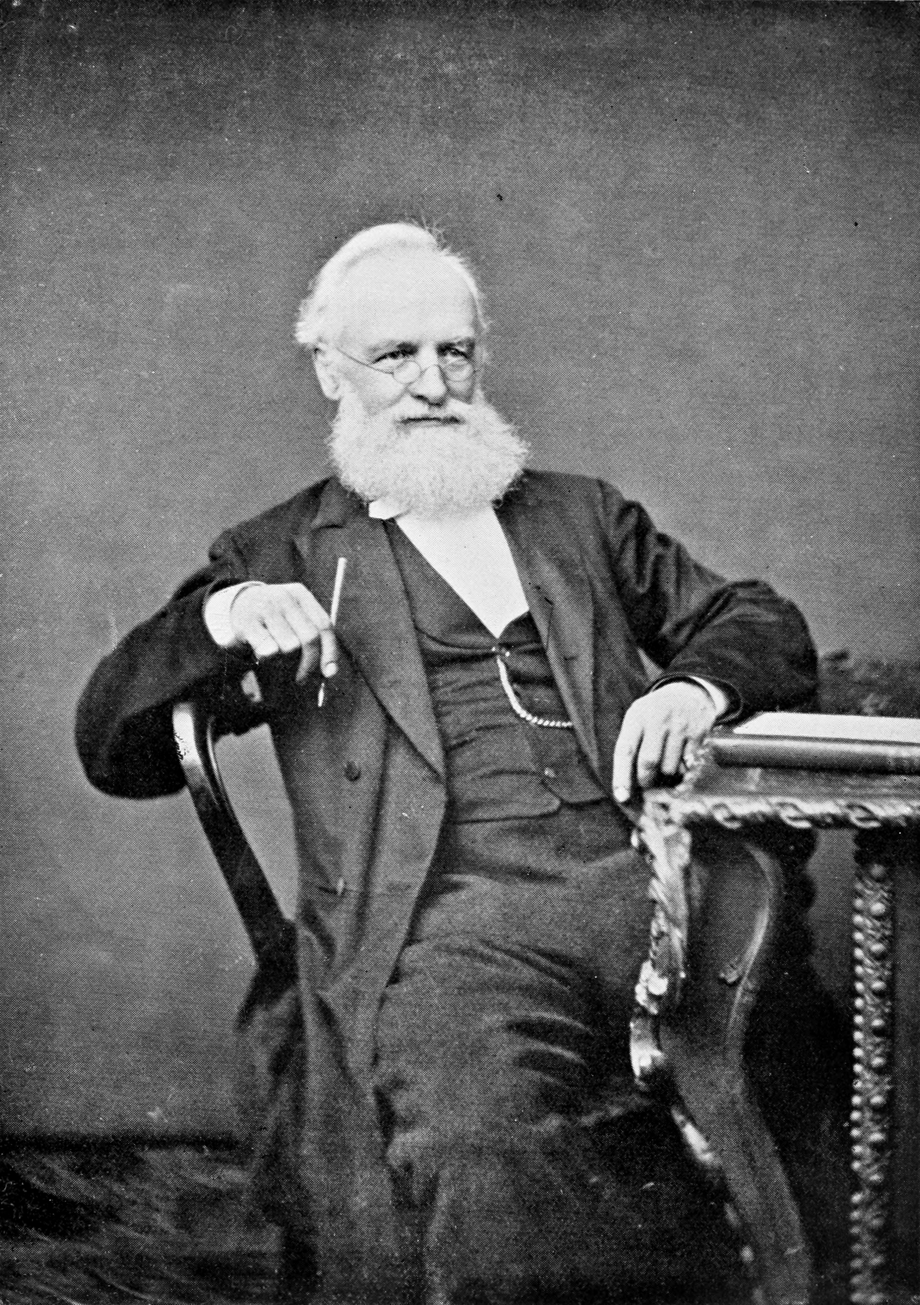 Plate 21 from Makers of British botany (1913), depicting William Crawford Williamson (1816–1895).